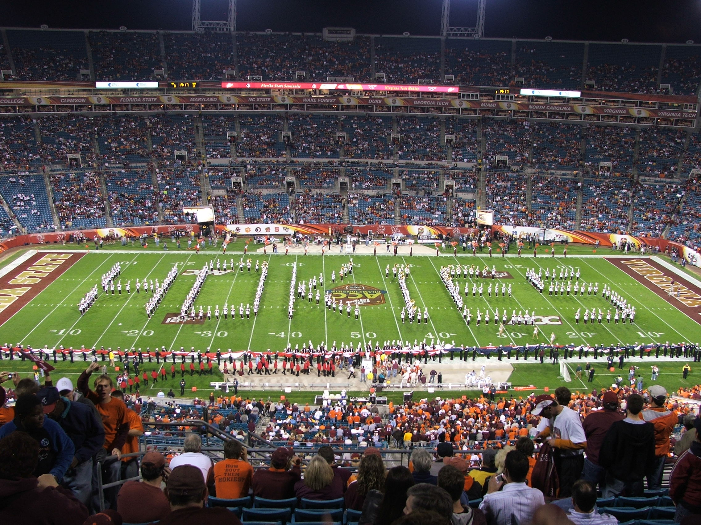 The Marching Virginians take the field prior to the 2005 Atlantic Coast Conference Championship between the Virginia Tech Hokies and the Florida State Seminoles.